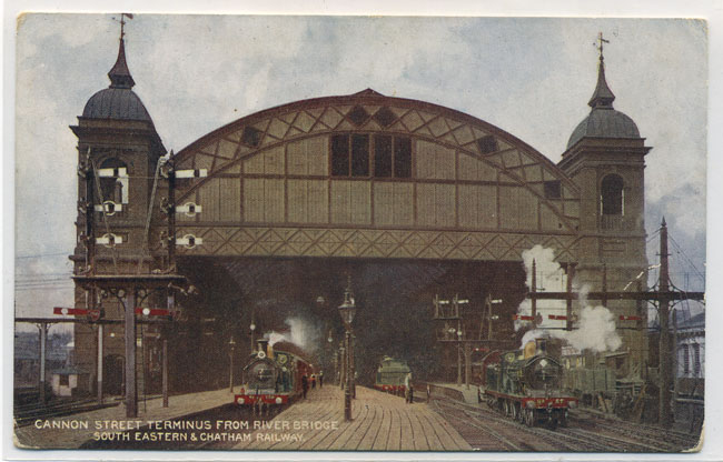 Cannon Street Railway Station, view from Railway Bridge